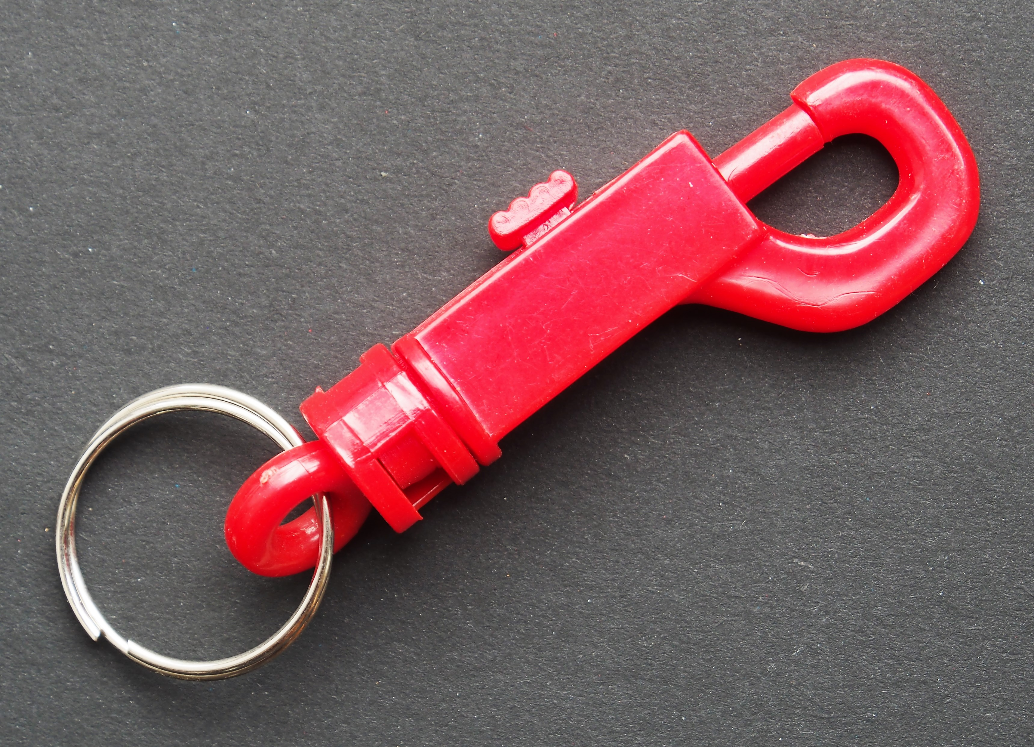 Photo of an advertising keyfob from the 60's.